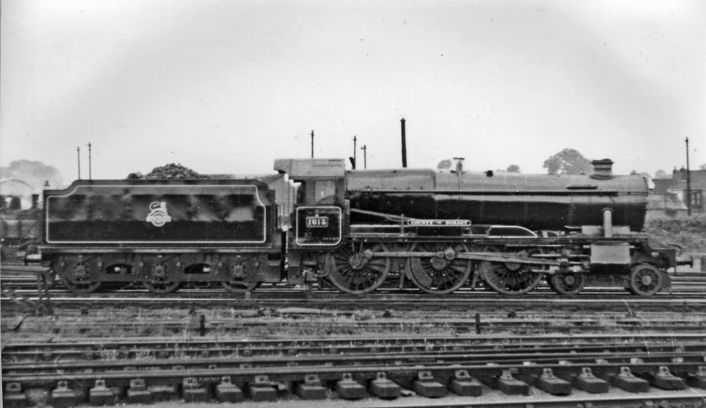 GW 'County' 4-6-0 leaving the Locomotive Depot at Gloucester. In splendid condition after repair at Swindon Works, Hawksworth 'County' class 4-6-0 No. 1013 'County of Dorset' (built 2/46, withdrawn 7/64) is captured from Gloucester Eastgate station as it backs out of Horton Road Depot.